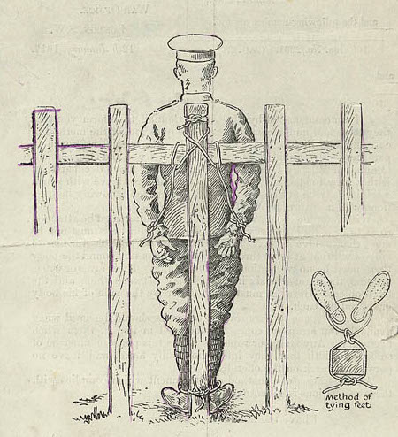 Contemporary illustration of Field Punishment Number One